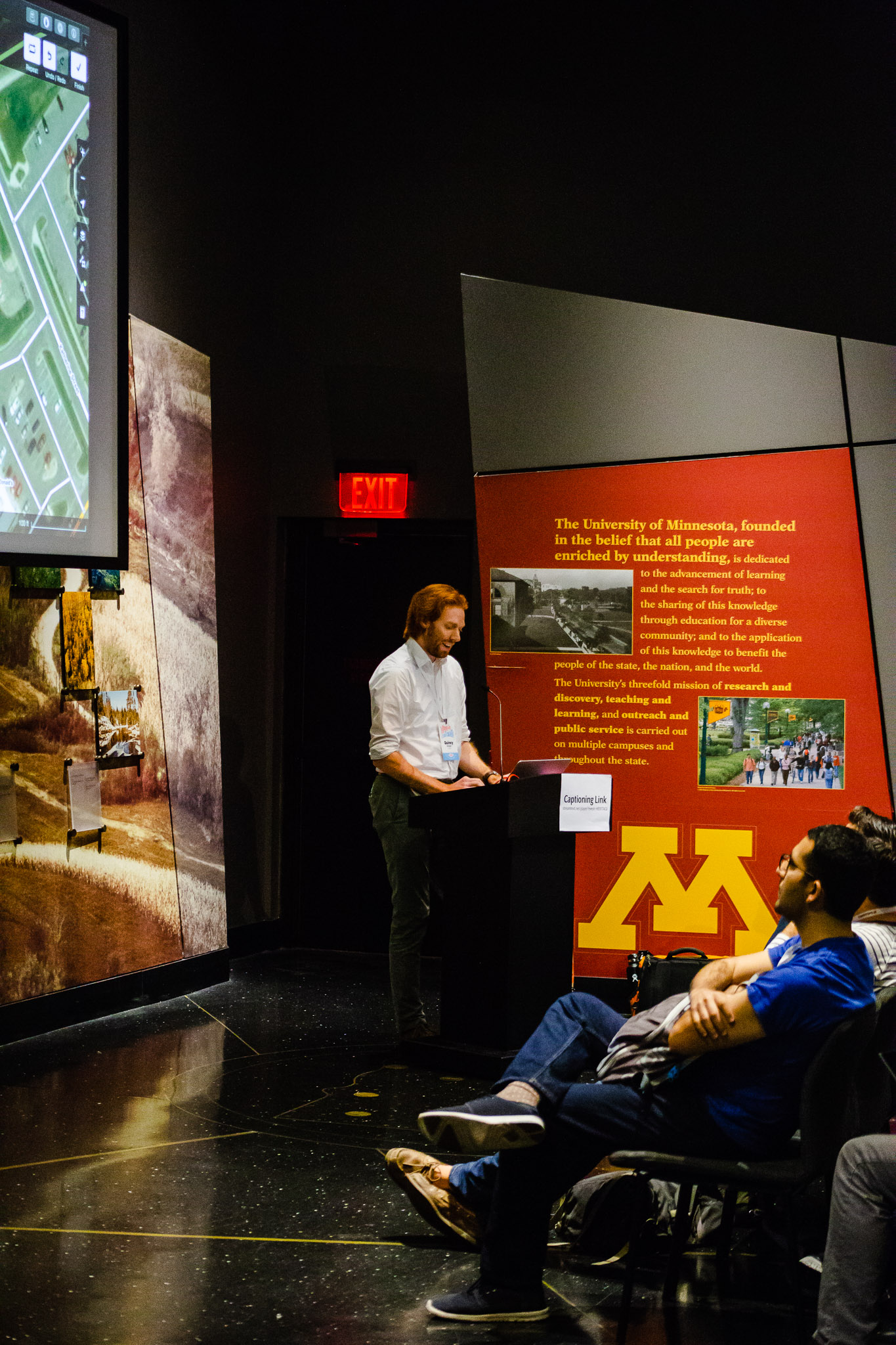 Photo credit Graham Gardner